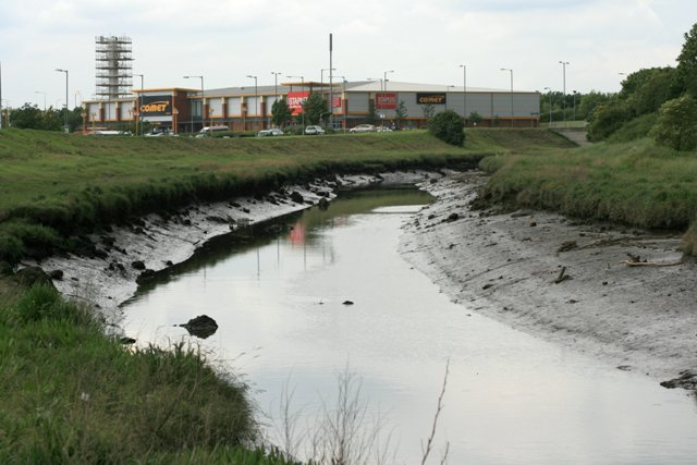 The Old River Tees The old course of the River Tees is still well defined as it does a large meander around what is now Teesside Retail Park. As can be seen the creek is tidal and must have been a lot wider. It was cut off when the river was straightened with the digging of the Old Cut in the nineteenth century. The cut was only 220 yards but it saved the sailing vessels negotiating the large loop around Mandale Bottoms.